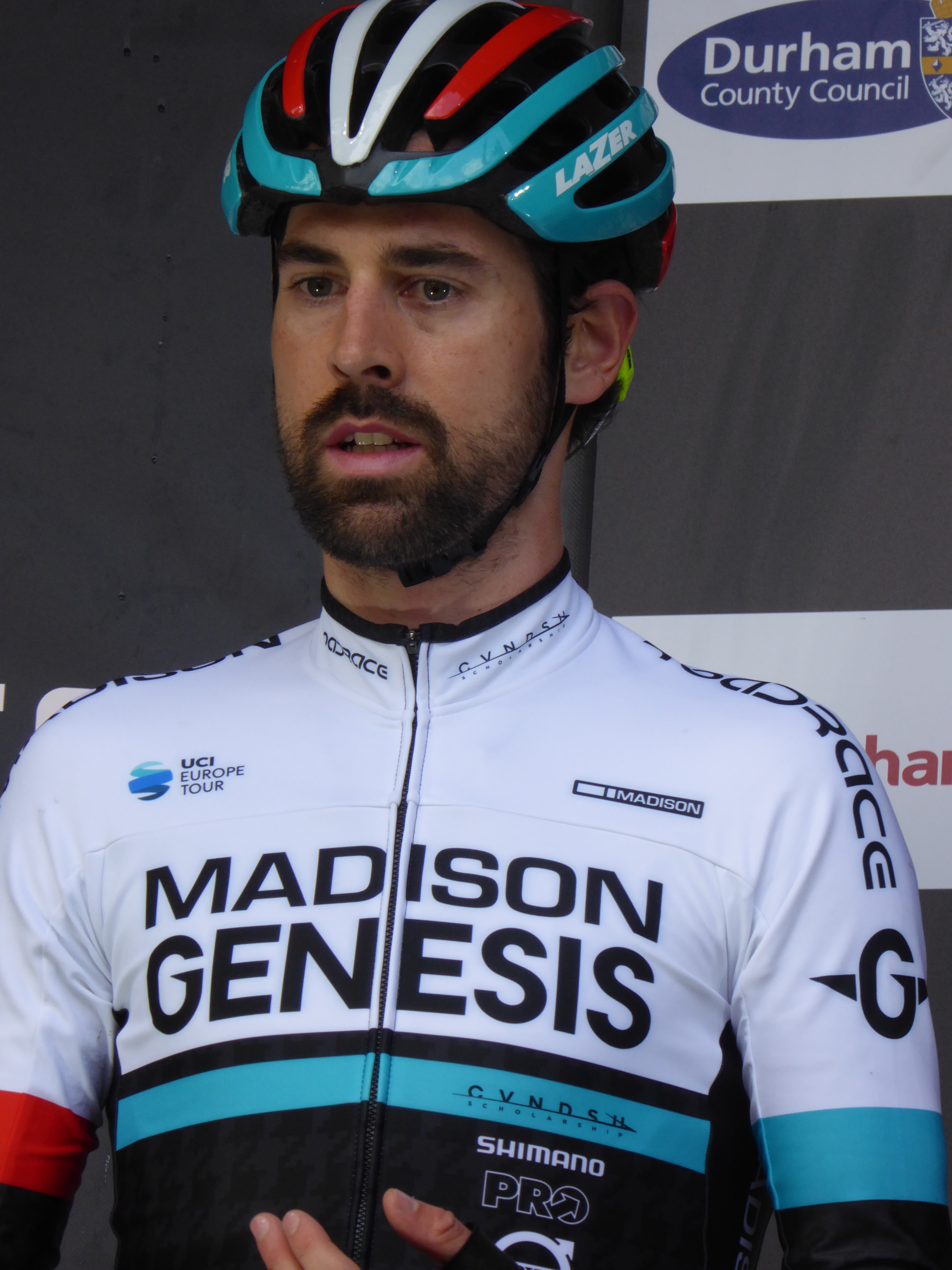 Jonathan McEvoy (Madison Genesis), prior to Round 9 of the Tour Series in Durham, on 27 May 2017.